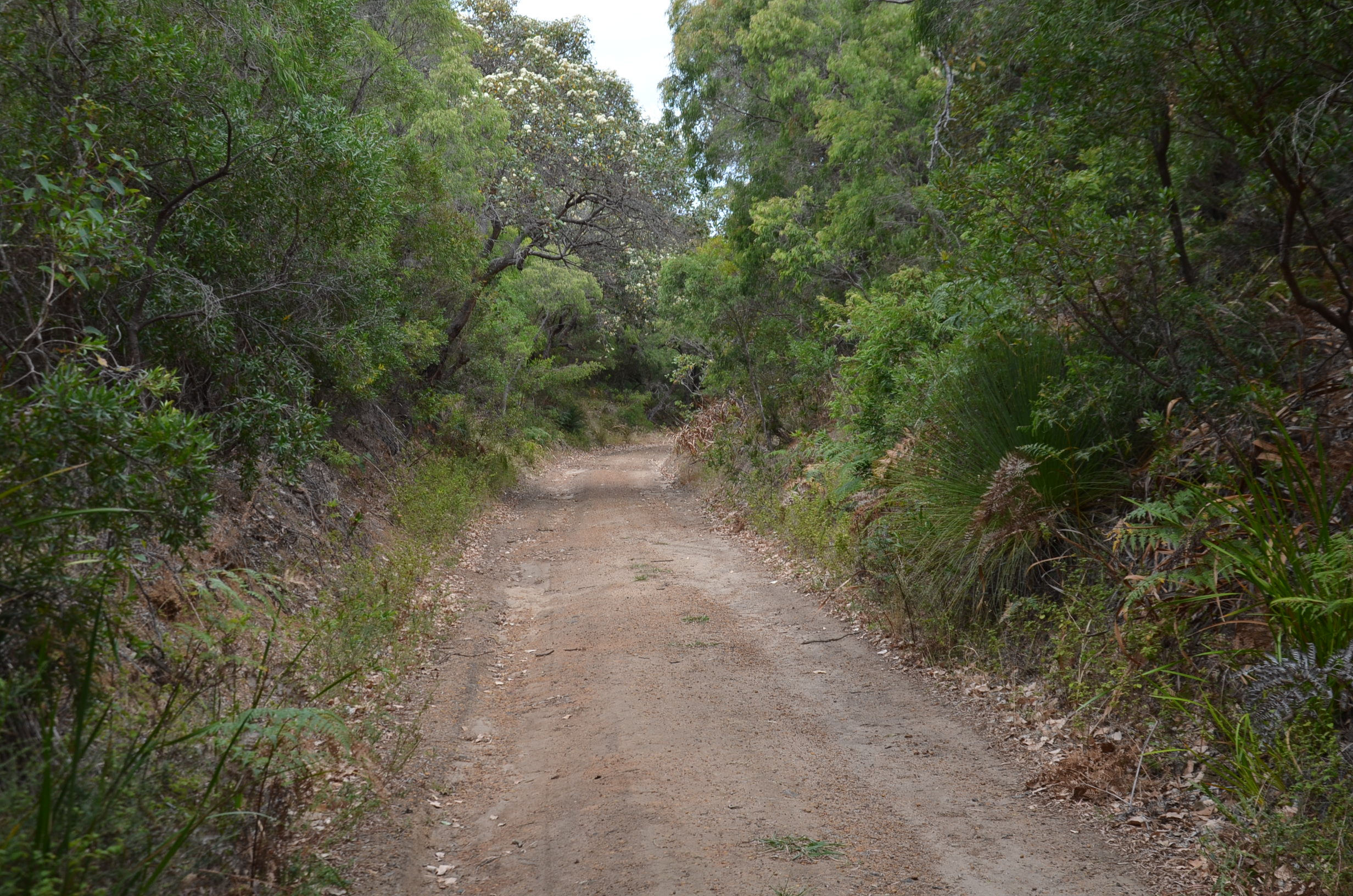 Former railway line formation between the Augusta airport and Flinders Bay - w: Flinders Bay Branch Railway